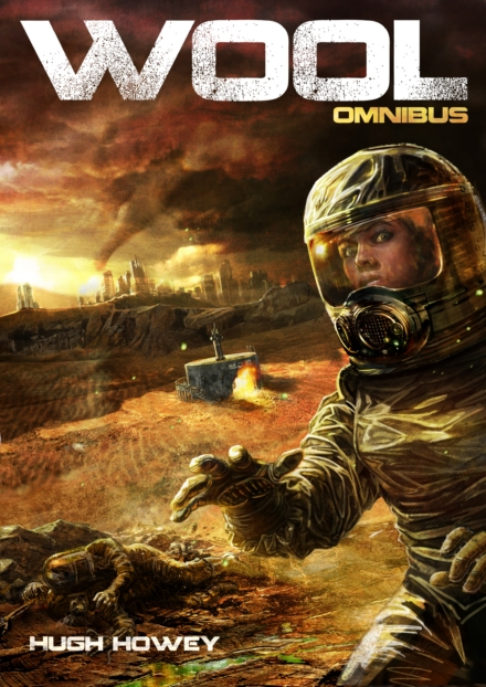 Hugh C. Howey Wool series art #3